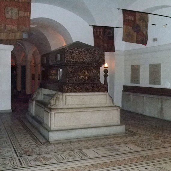 Tomb of Arthur Wellesley, 1st Duke of Wellington, in St Paul's Cathedral, London, England